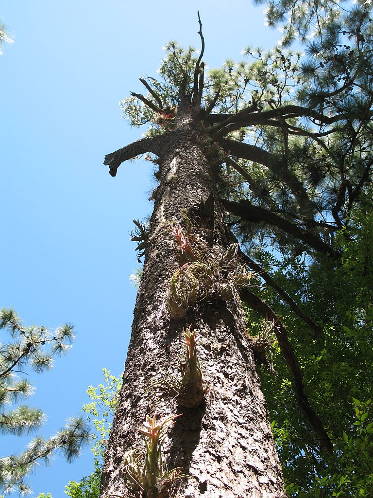 Tillandsia seleriana, in habitat in El Salvador, Dept. Santa Ana, Parque Nacional Montecristo; 1231m.